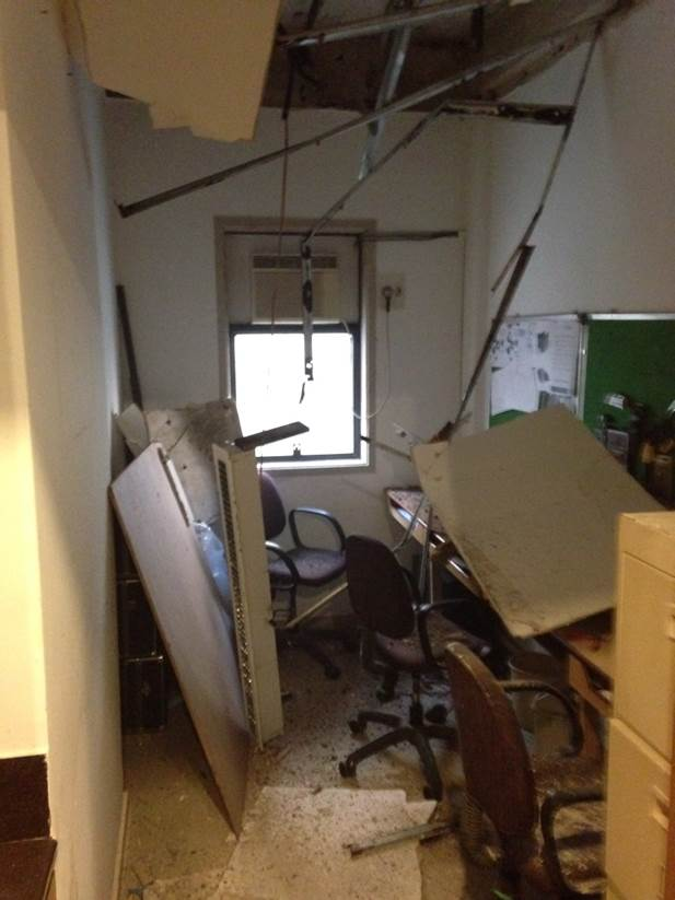 Eyenetra, ceiling crashes